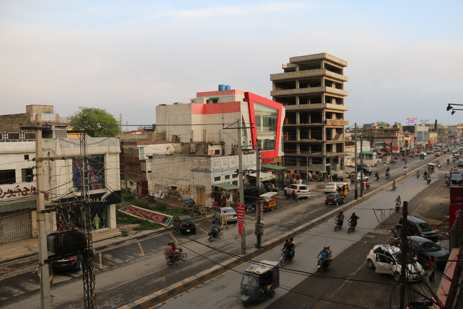 Allama Iqbal Road, Sialkot Cantt